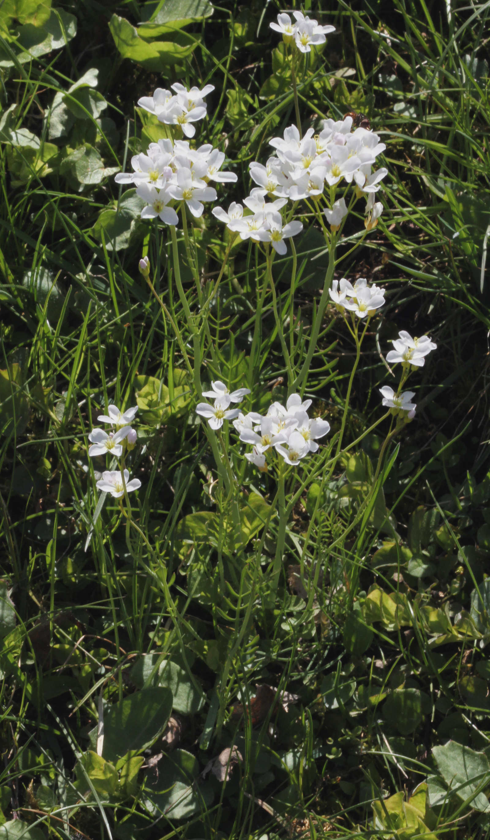 Plant Cardamine pratensis, east Bohemia, Czech Republic